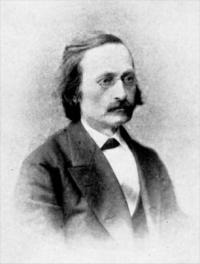 Gustav Adolf Merkel, German organist, composer